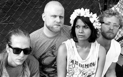 The American blues-punk rock band Shilpa Ray and her Happy Hookers.